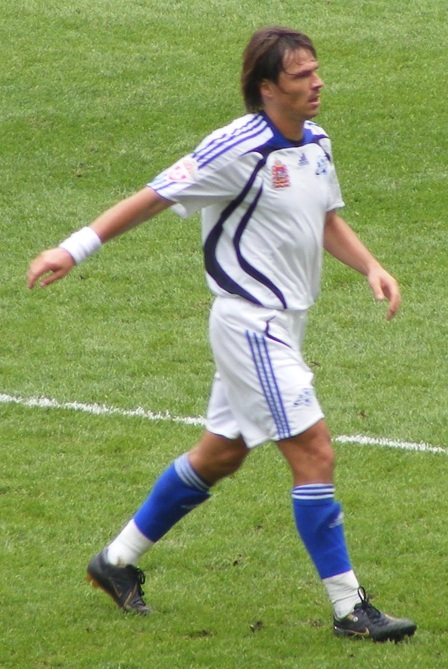 Dmitri Loskov leaves the pitch after his first match against Lokomotiv, the club he spent most of his career in